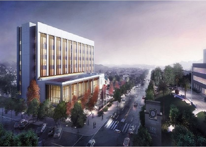 Rendering of the new Shasta County Courthouse.